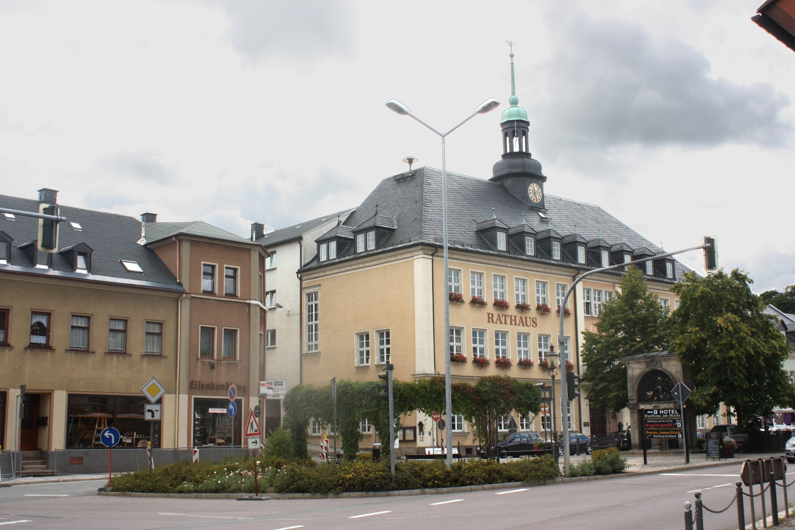 Ehrenfriedersdorf, the town hall